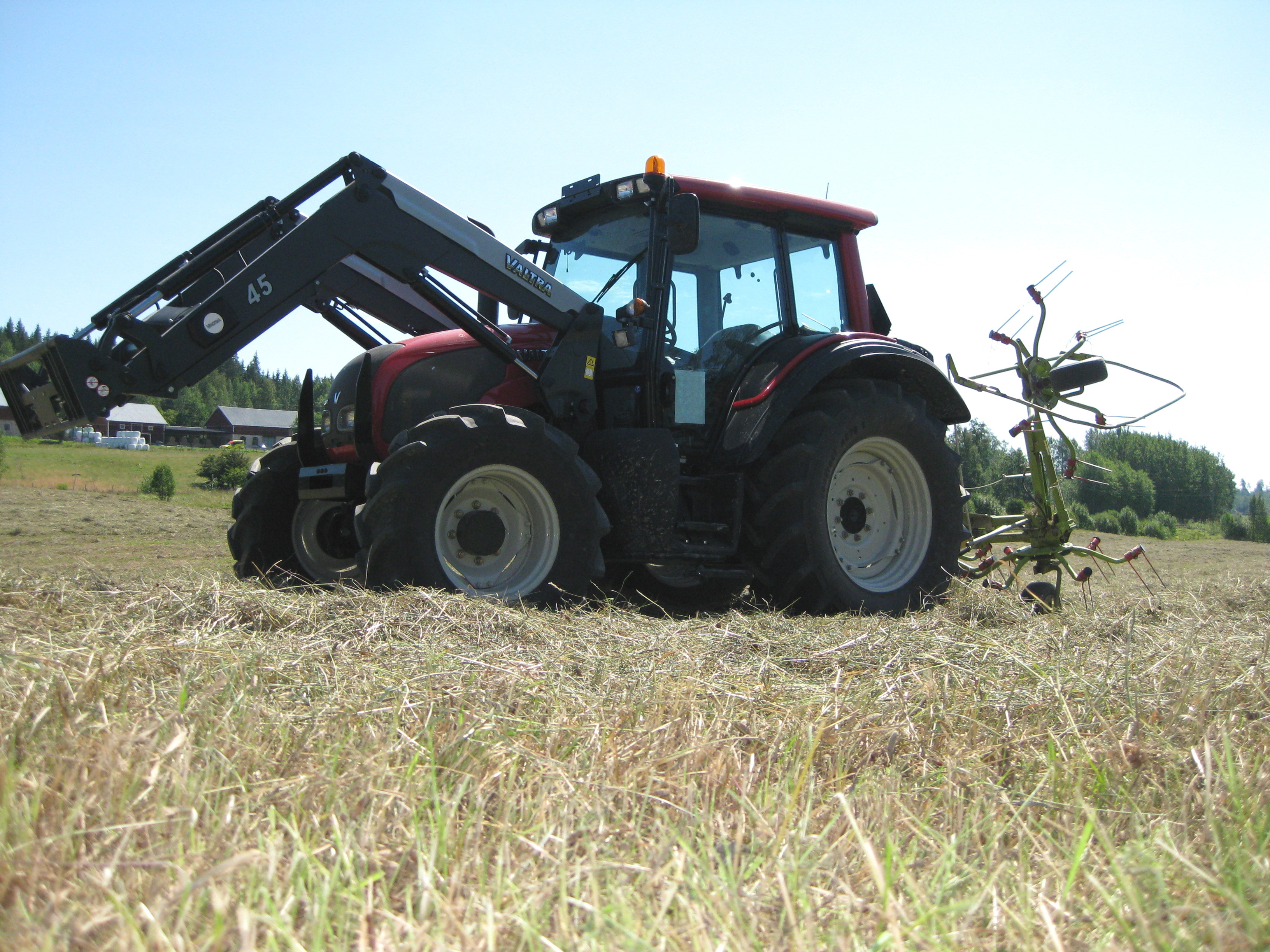 Valtra N92 tractor with a Valtra 45 front end loader. At the rear it's a Claas Volto 52 hay tedder.